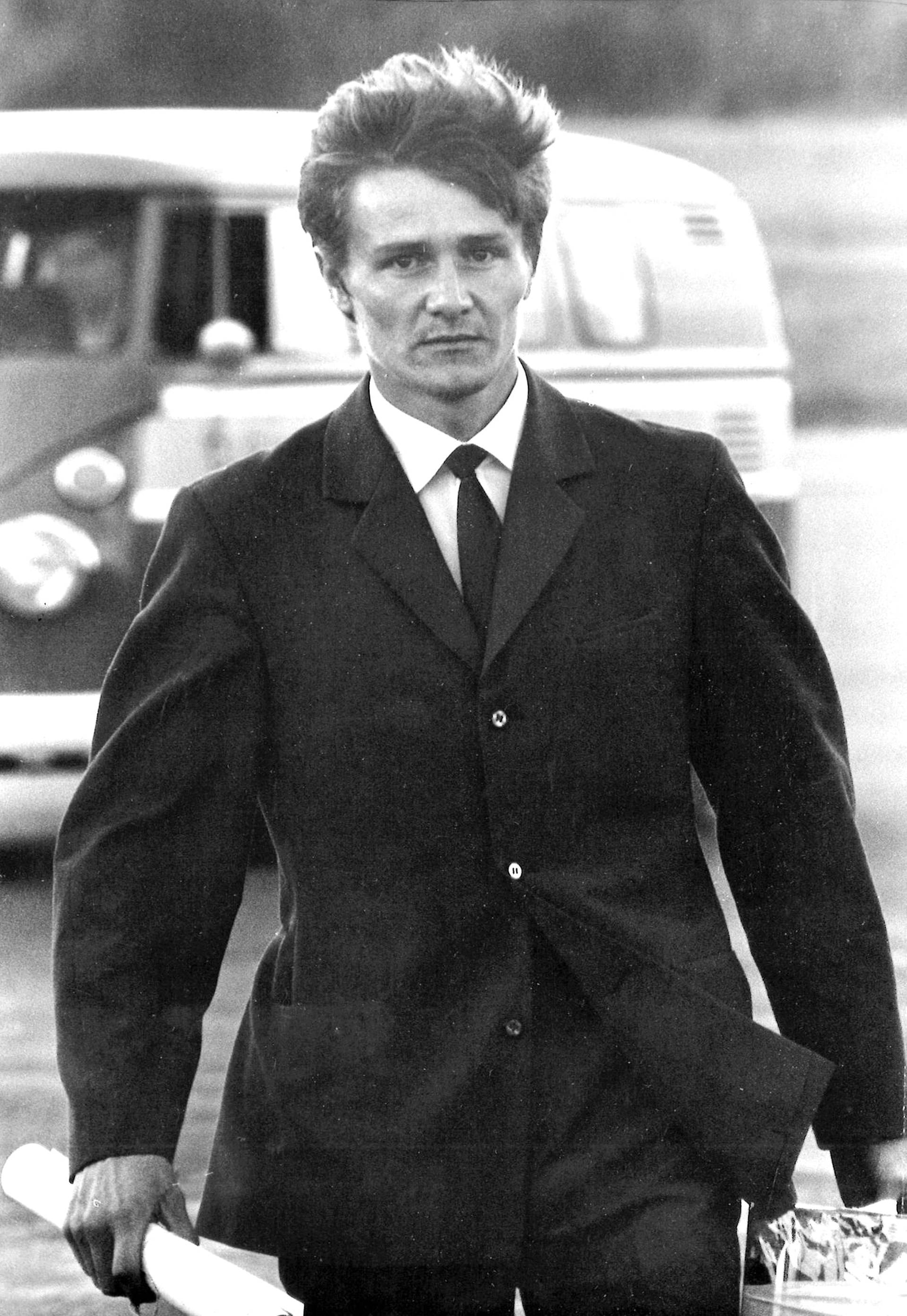 Photograph of the Finnish runner Jouko Kuha (1939–).